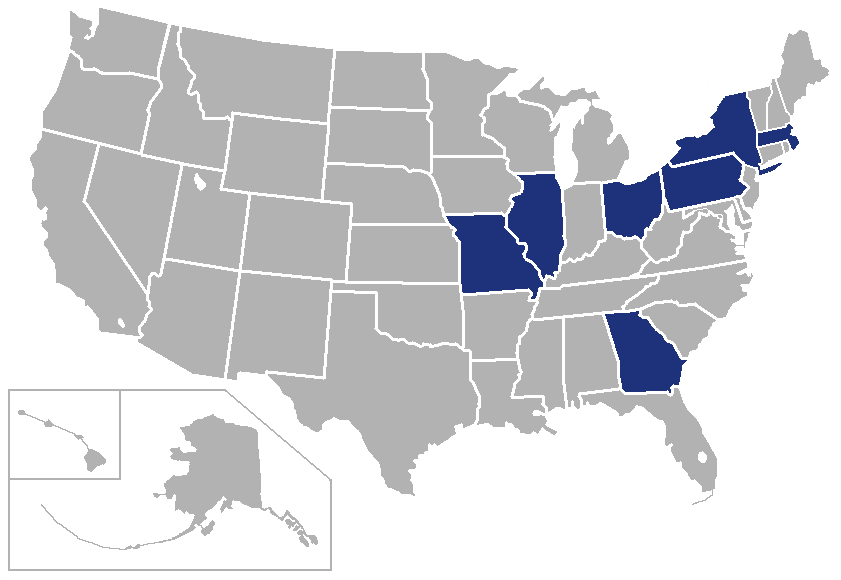 derived from Image:BlankMap-USA-states.PNG; map of states with University Athletic Association